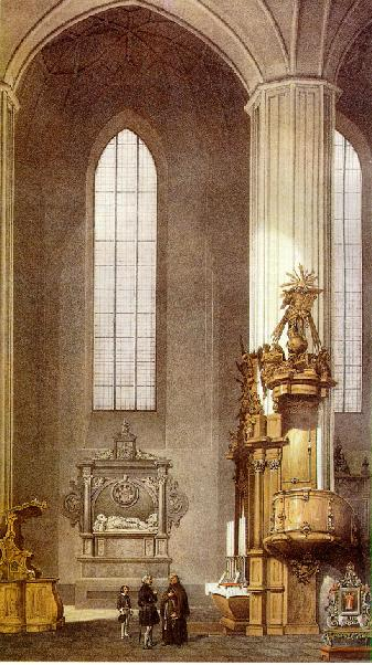 Interior of Bernardine Church in Vilnius, Lithuania. 1848, Colour lithograph.